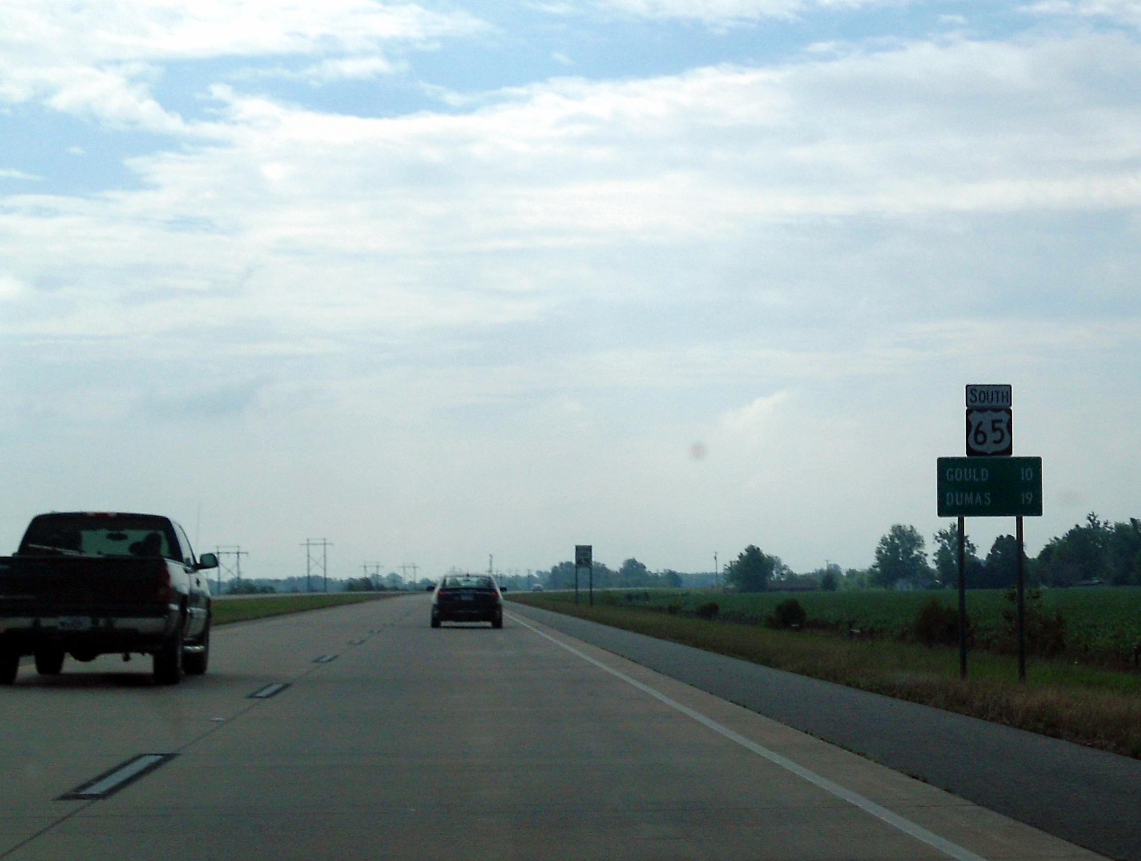 U.S. Route 65 runs just south of Grady, Arkansas